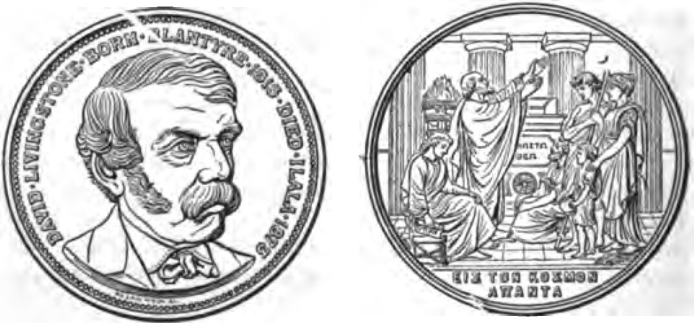 David Livingstone Medal (p.60, 1890), London Missionary Society